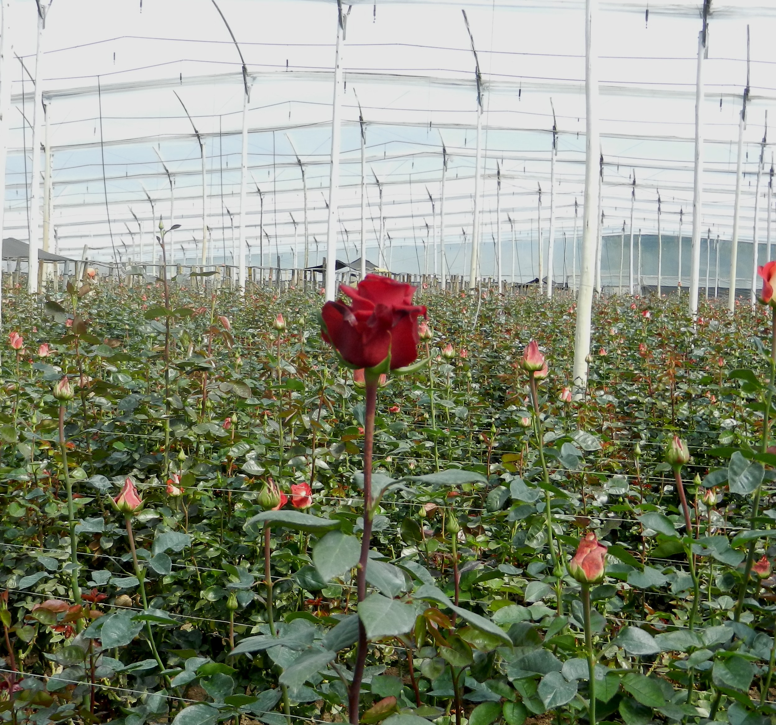 Plantation of roses in the province of Cotopaxi